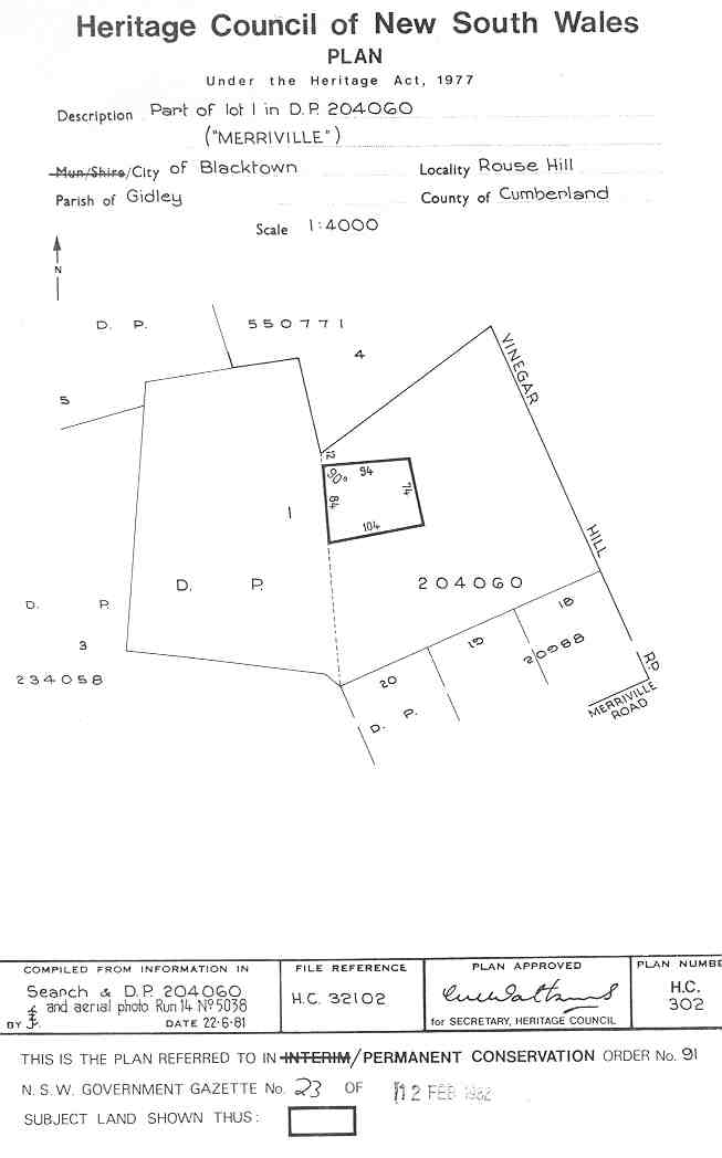 Merriville House and Gardens: PCO Plan Number 091